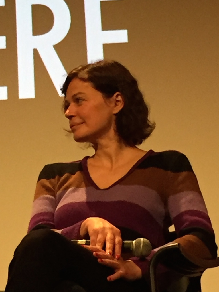 French film actress Marianne Denicourt at the Ciné Lumière, London. January 10th 2017.